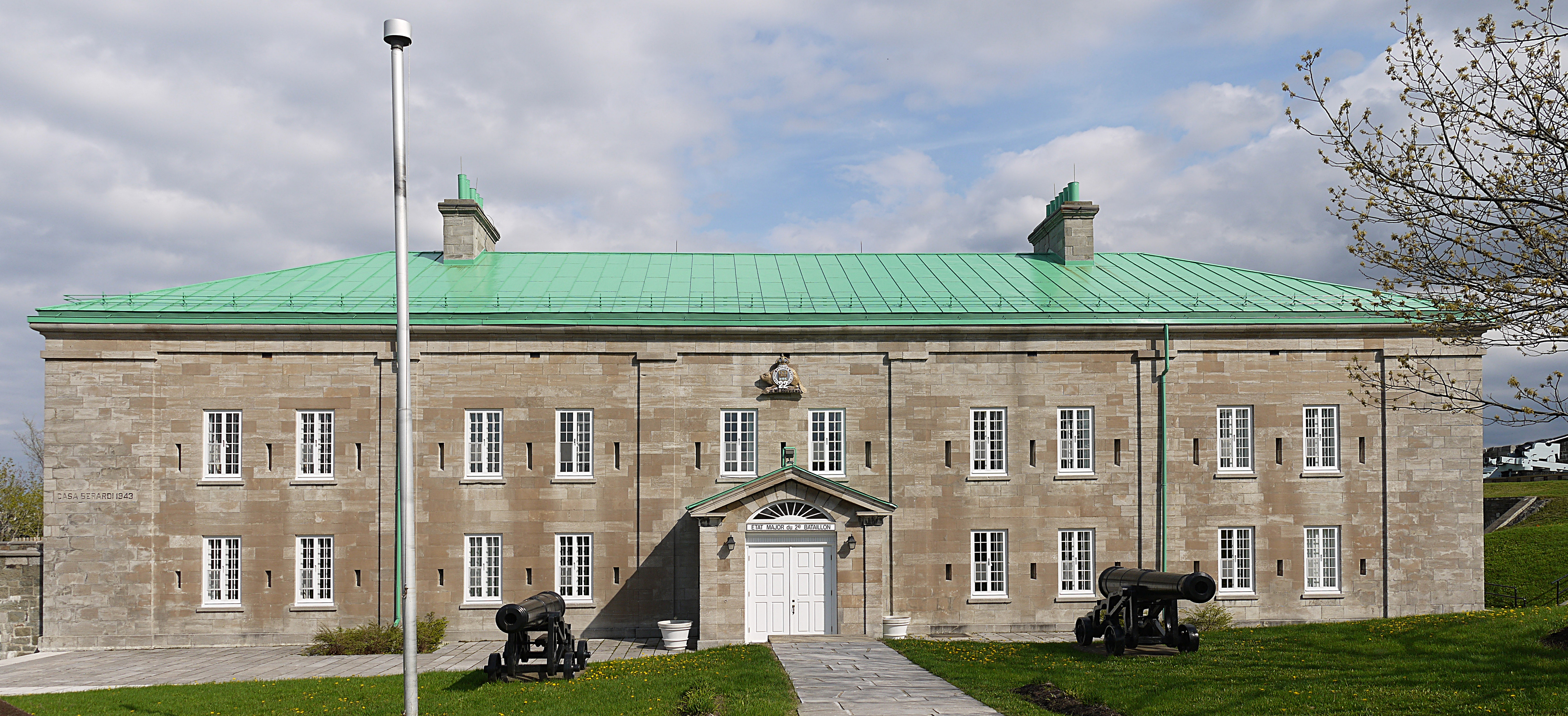 Staff Headquarters of the Royal 22nd Regiment.